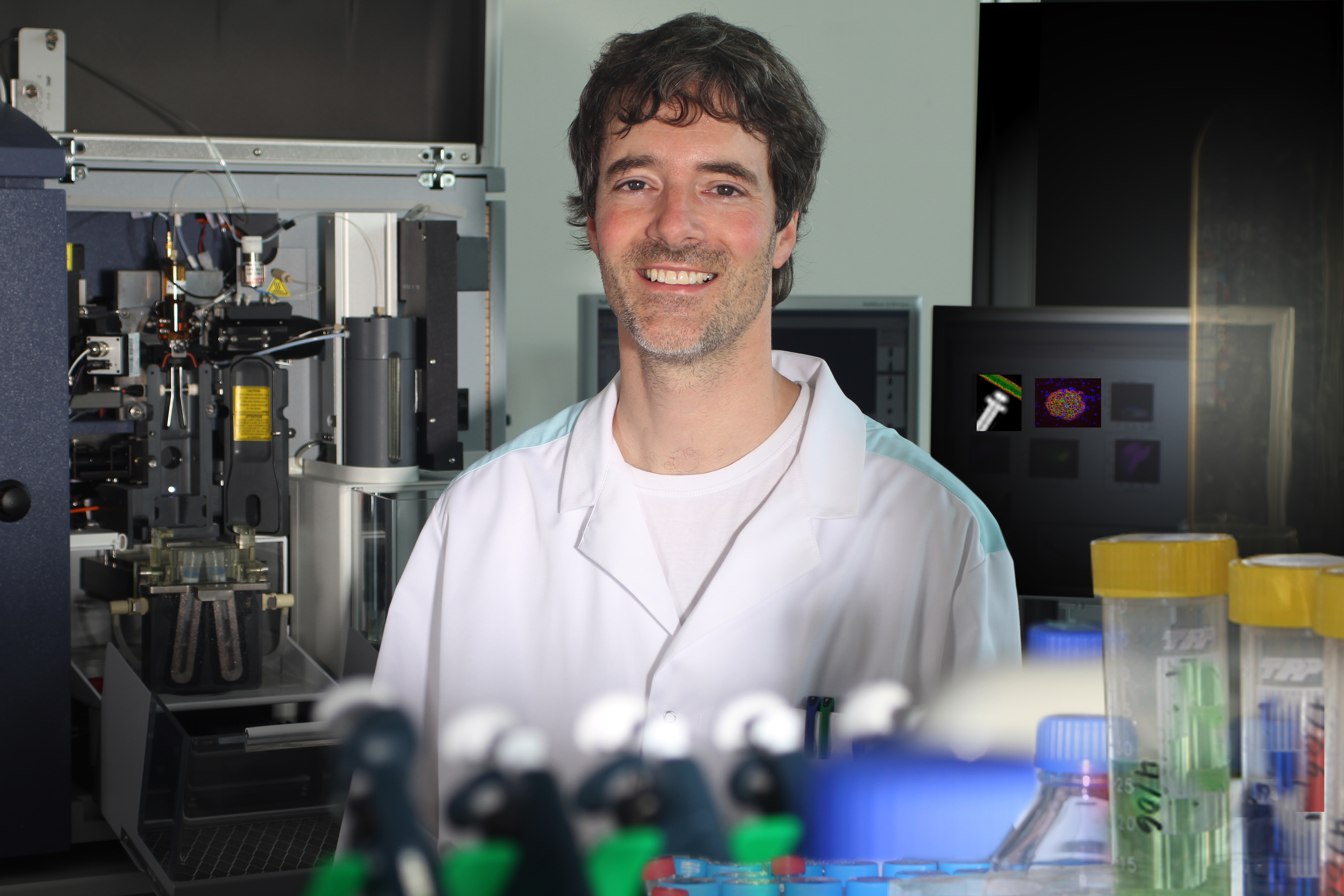 Professor Dirk Bumann, Biozentrum University of Basel Switzerland